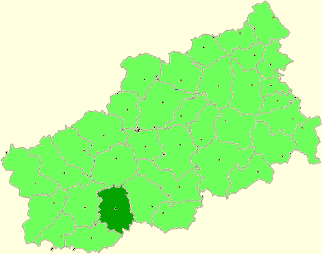 Tver Oblast map by Al Silonov